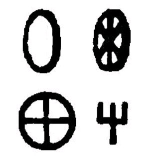 Wheel symbols in Egyptian temples and wheel and trisula on Ptolemaic tombstones